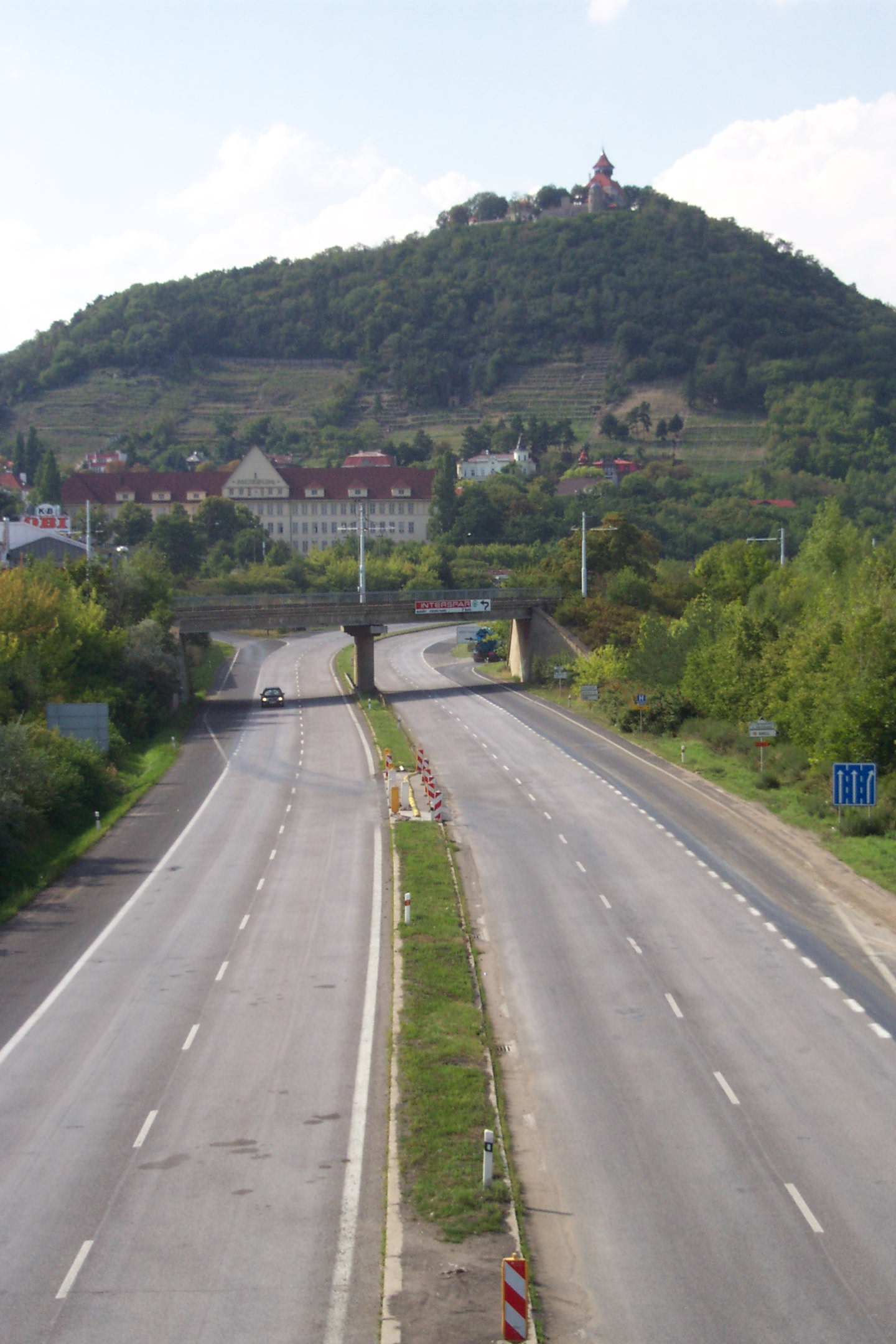 The Hněvín castle at Most